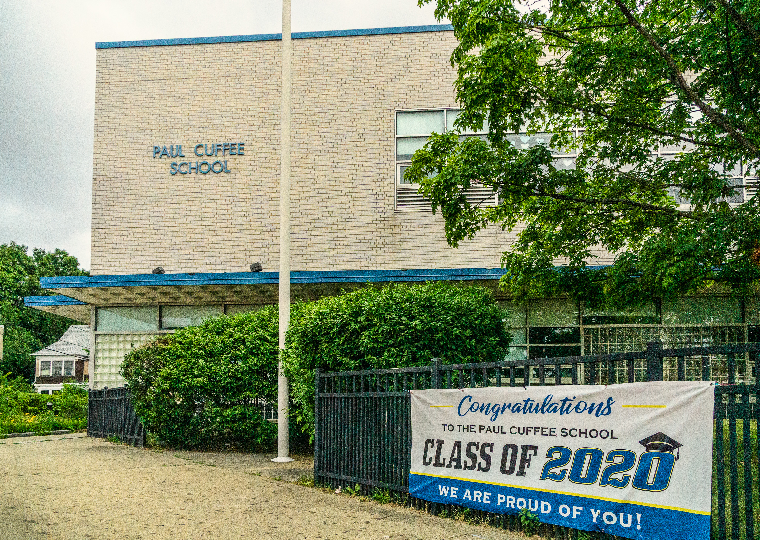 Paul Cuffee School, Upper School. 544 Elmwood Avenue, Providence, RI 02907